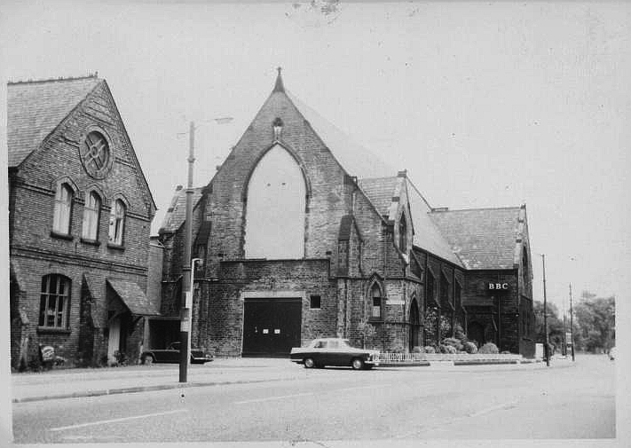 Dickenson Road Studios, Longsight, Manchester, while under the ownership of the BBC. If being used outside Wikipedia, then please credit Malcolm Carr